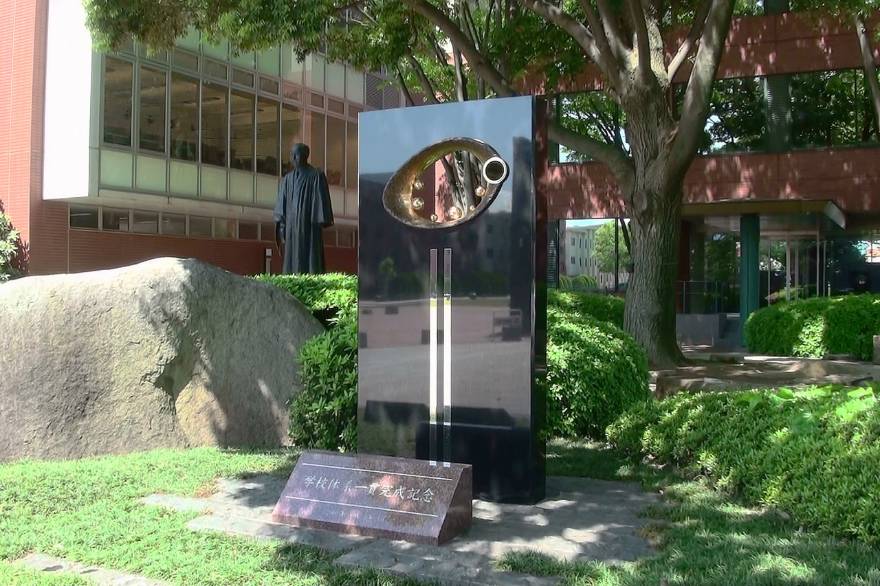 Yamanashi Gakuin University education system completion monument